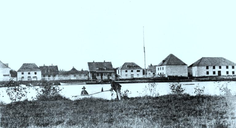 Photograph, Fort William, ON, 1865, Silver salts on paper mounted on card - Albumen process - 7.9 x 14.3 cm